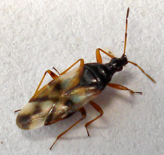 Anthocoris nemorum On: Please see photo Location: Lincoln City Site: Boultham Park